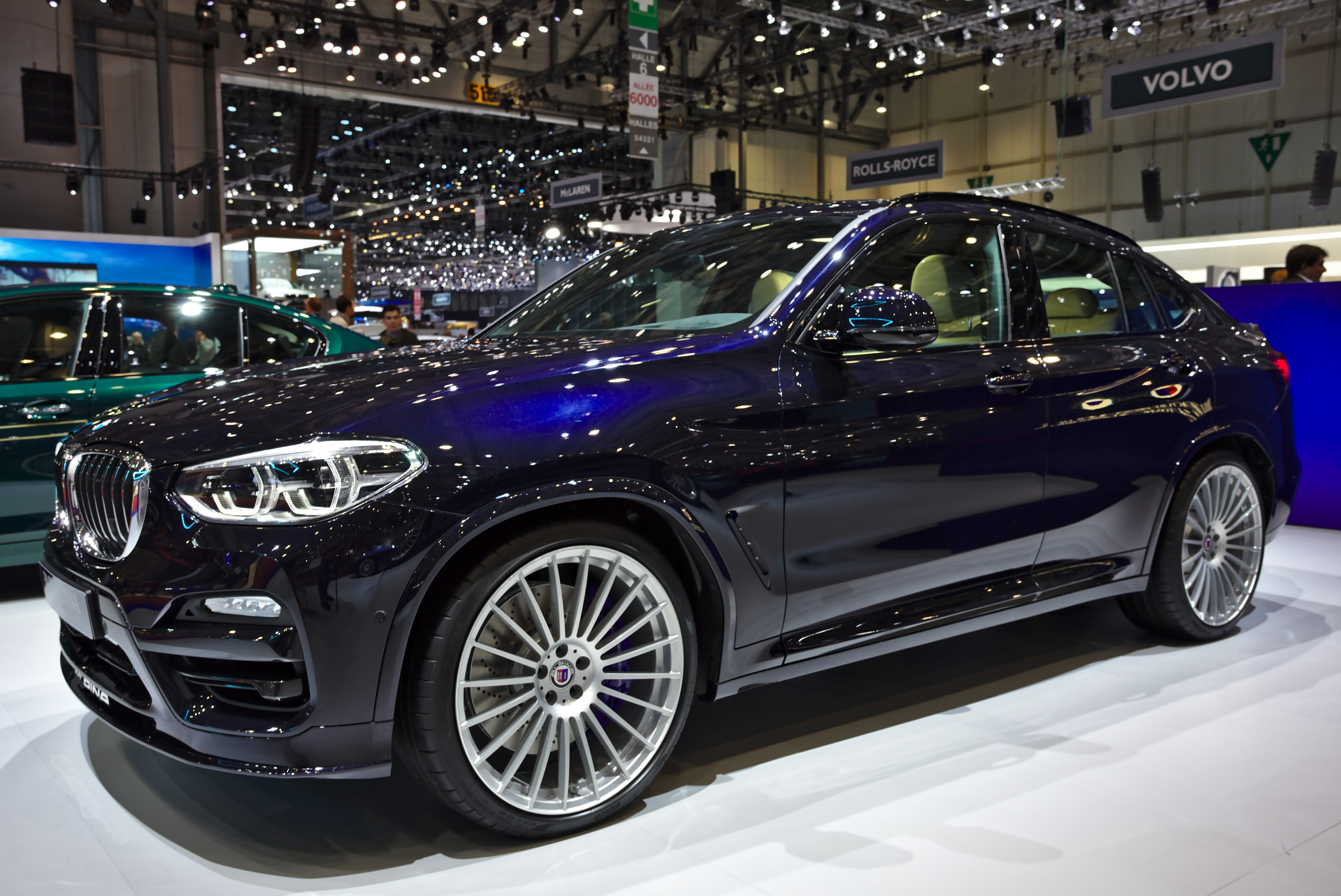 Alpina XD4 at Geneva Motorshow 2018